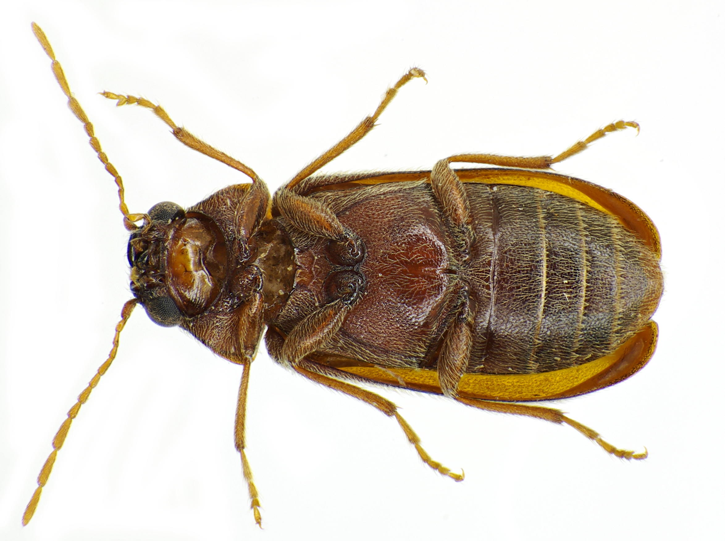 Ernobius mollis from Southern Germany, underside